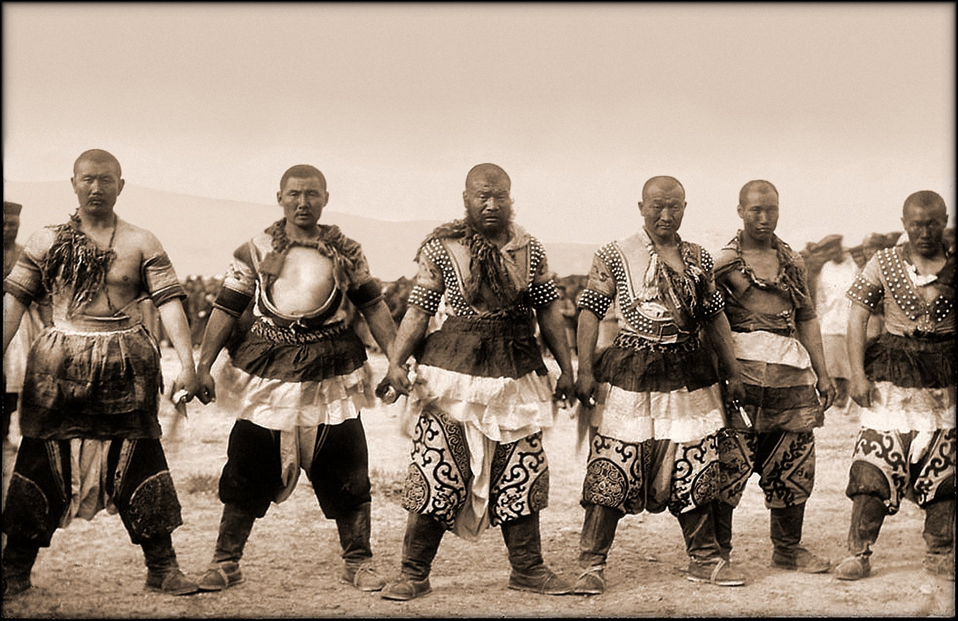 Entitled: Six Strongmen In Traditional Dress, China [1909] W Purdom [RESTORED] Spot corrections, contrast and tonal adjustments; I also more clearly defined the faint mountain line in the background, and increased (doubled) the image size as the original was very small. This of course introduced a lot of jpeg magnification artifact that I then blended with uniform random noise. William Purdom (1880-1921) was another explorer botanist that surveyed and collected northern Chinese flora along the Yellow River for three years, from 1909-1911; and in Tibet and Gansu, from 1914-1915. The original non-restored picture was discovered in Harvard University's Library Collection using their VIA (Visual Information Access) Search engine. It can be found with Record Identifier: olvwork270371. Other information included stated: "...Strong men at August games (Mongol). Photo by Wm. Purdom, 1909-1911. Weichang Xian, Hebei Sheng, China"